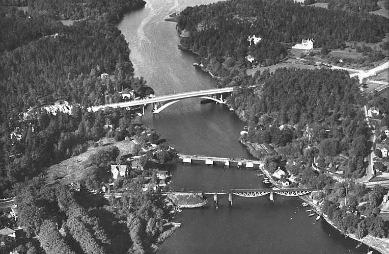 Aerial view of part of Stocksund with the bridges over Stocksundet. From top to bottom, the bridges are the road bridge of 1936, the road bridge of 1826 and the rail bridge (for the Roslagsbanan) of 1885. None of these bridges still exist.